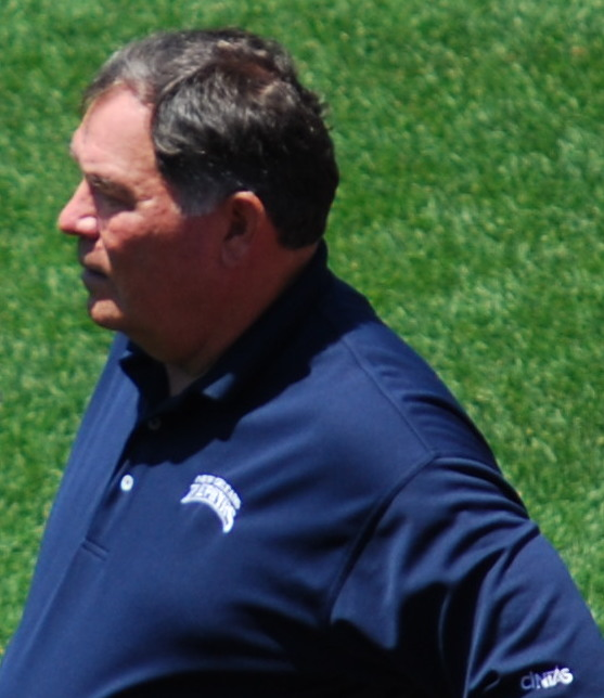 Ron Swoboda (center, in blue) in 2009